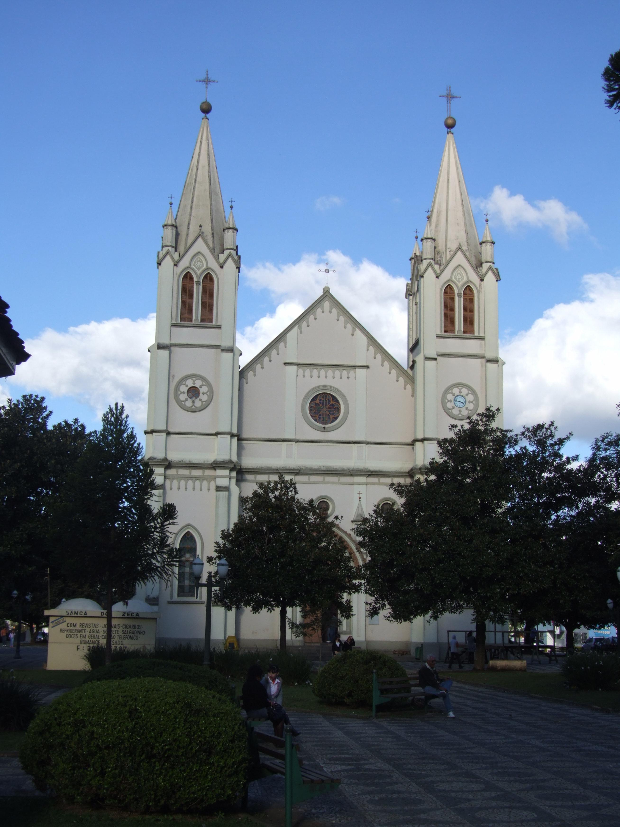 Matrix Church of Our Lady of the Piety, in the Square Floriano Peixoto.